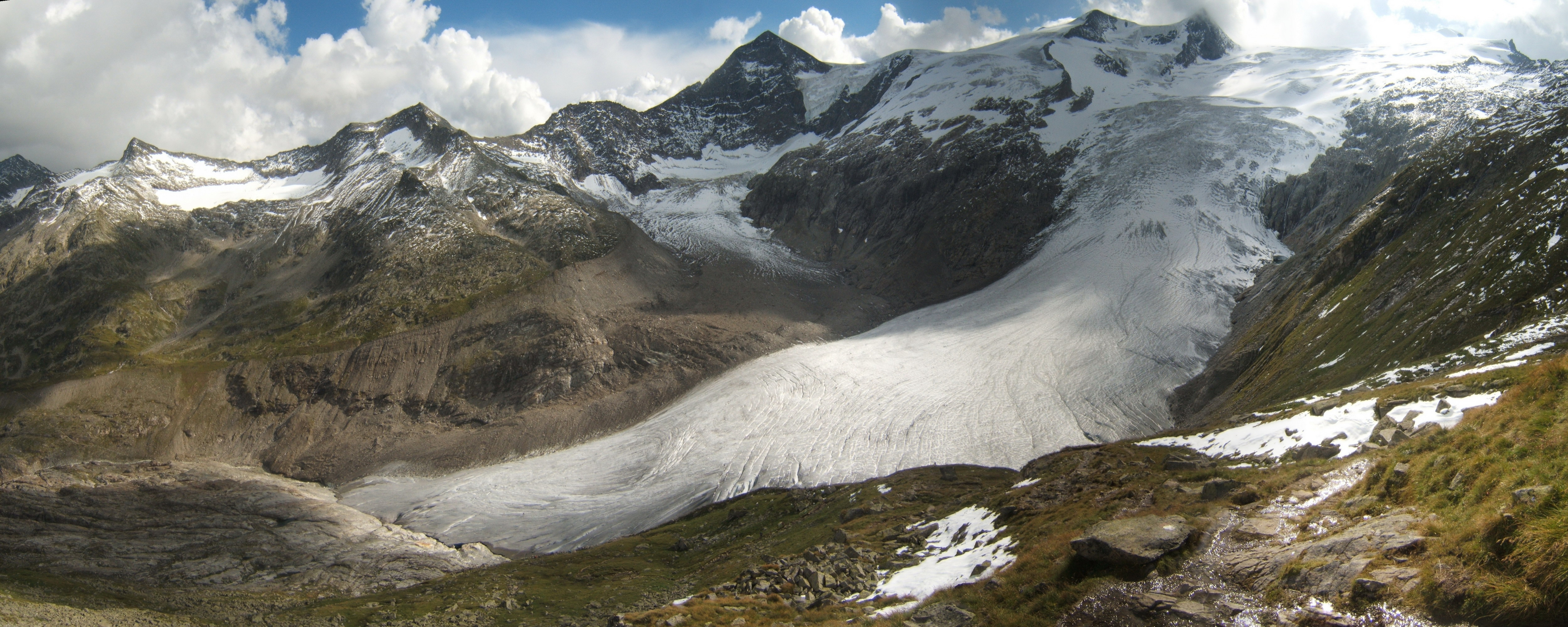 View from the Alte Prager Hütte to the glacier Schlatenkees and the Großvenediger. Hohe Tauern, Alps, Austria. Stitched from 5 pics